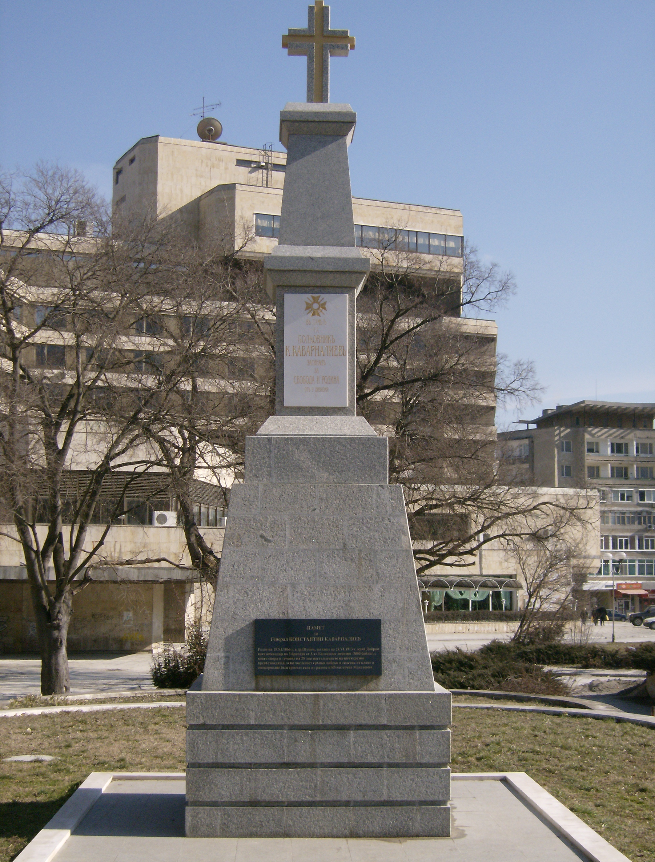 General Kavarnaliev monument and Shumen Hotel in Shumen, Bulgaria